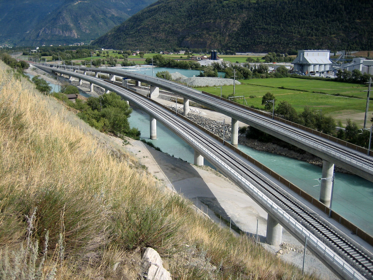 new bridge over river Rhone at south portal of new Loetschberg Base Tunnel (LBT) grants access to main railway link between Sion and Brig-Glis; Raron, Canton Valais; LBT is part of the Swiss Alptransit project